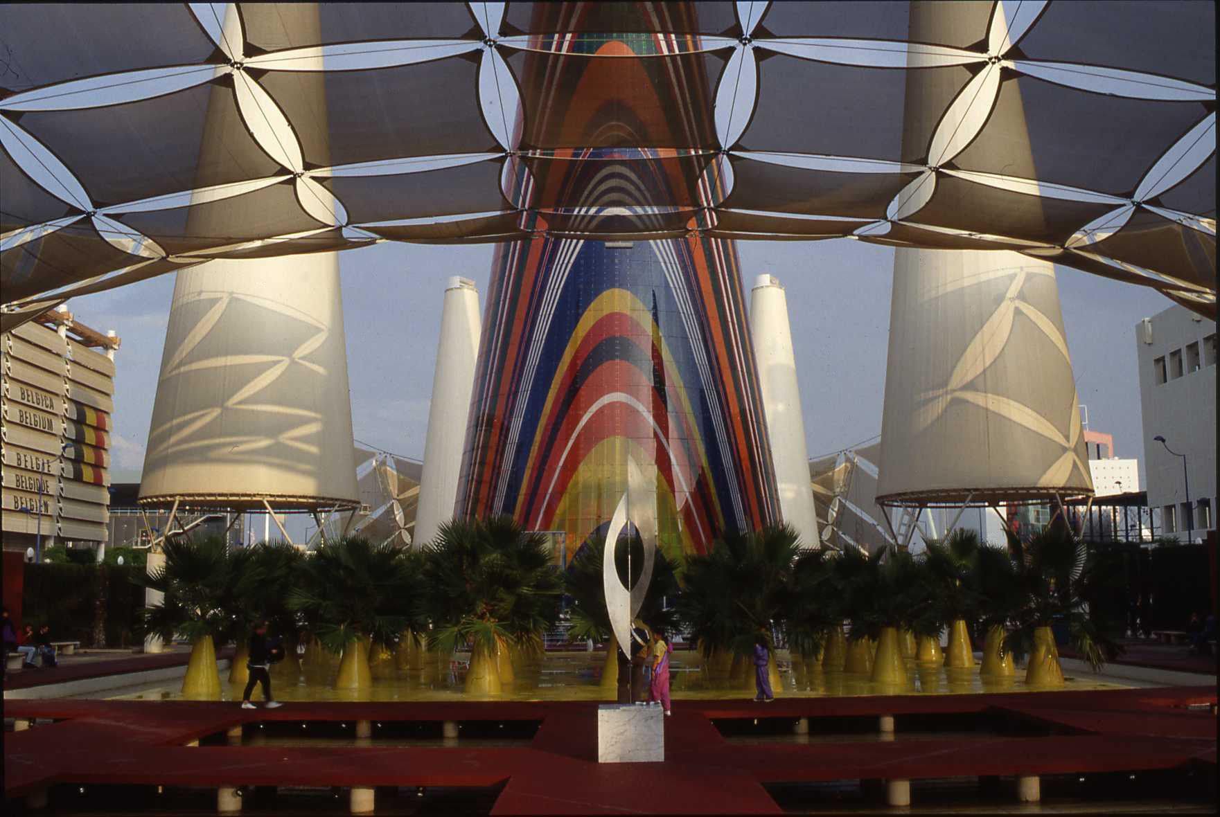 Universal exposition in Seville. On the left the Belgian paviljon.